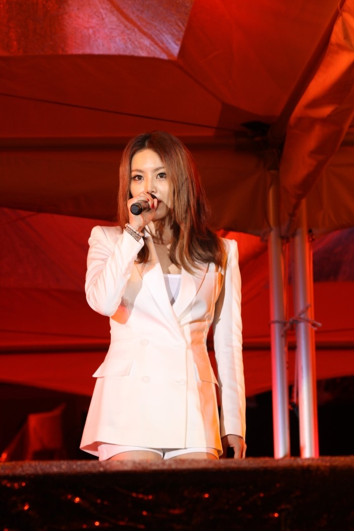 Miryo in July 10, 2012, during the Expo 2012 Yeosu.